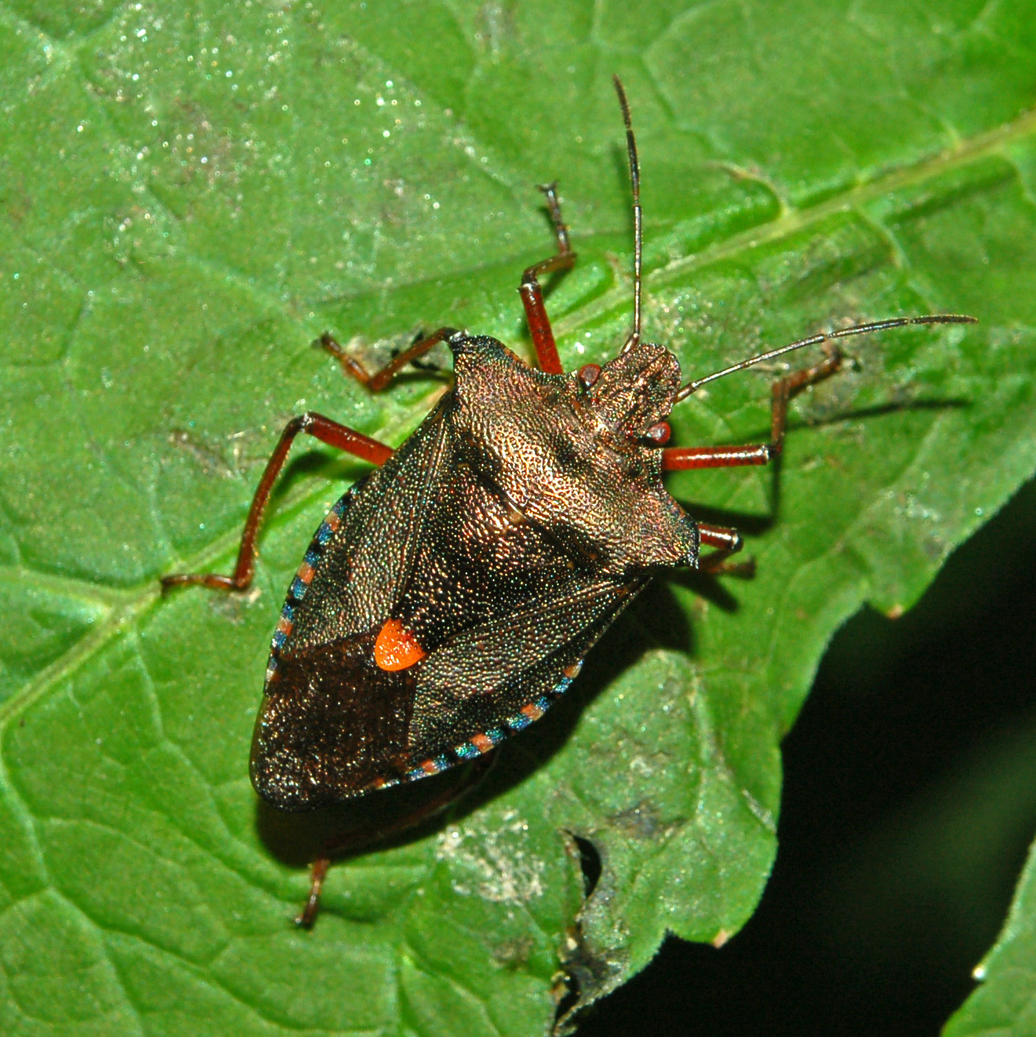 Pentatoma rufipes. Forno, Torino, Italy